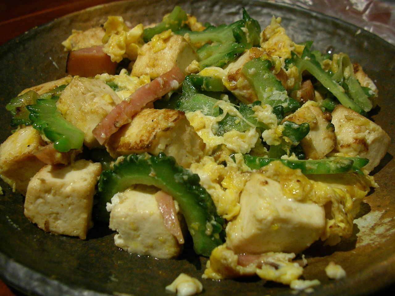 Gōyā chanpurū.